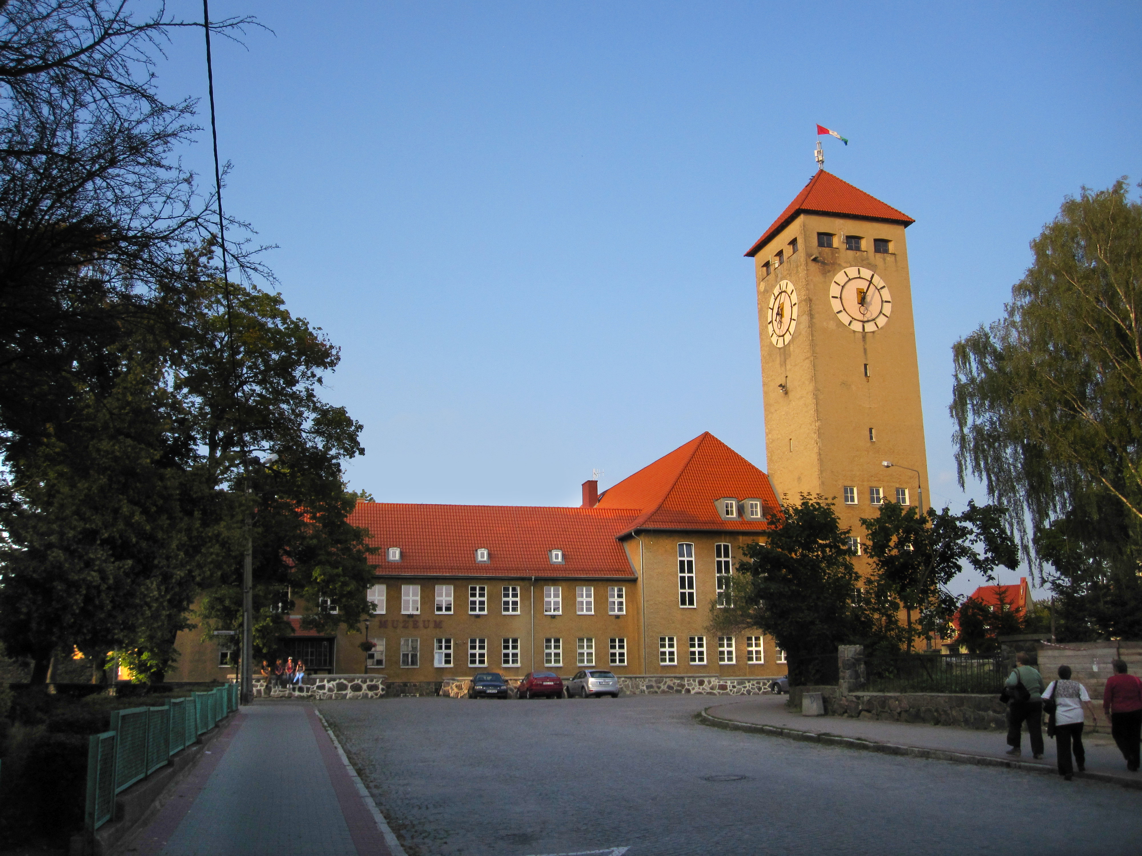 Szczytno - town hall built in 1937